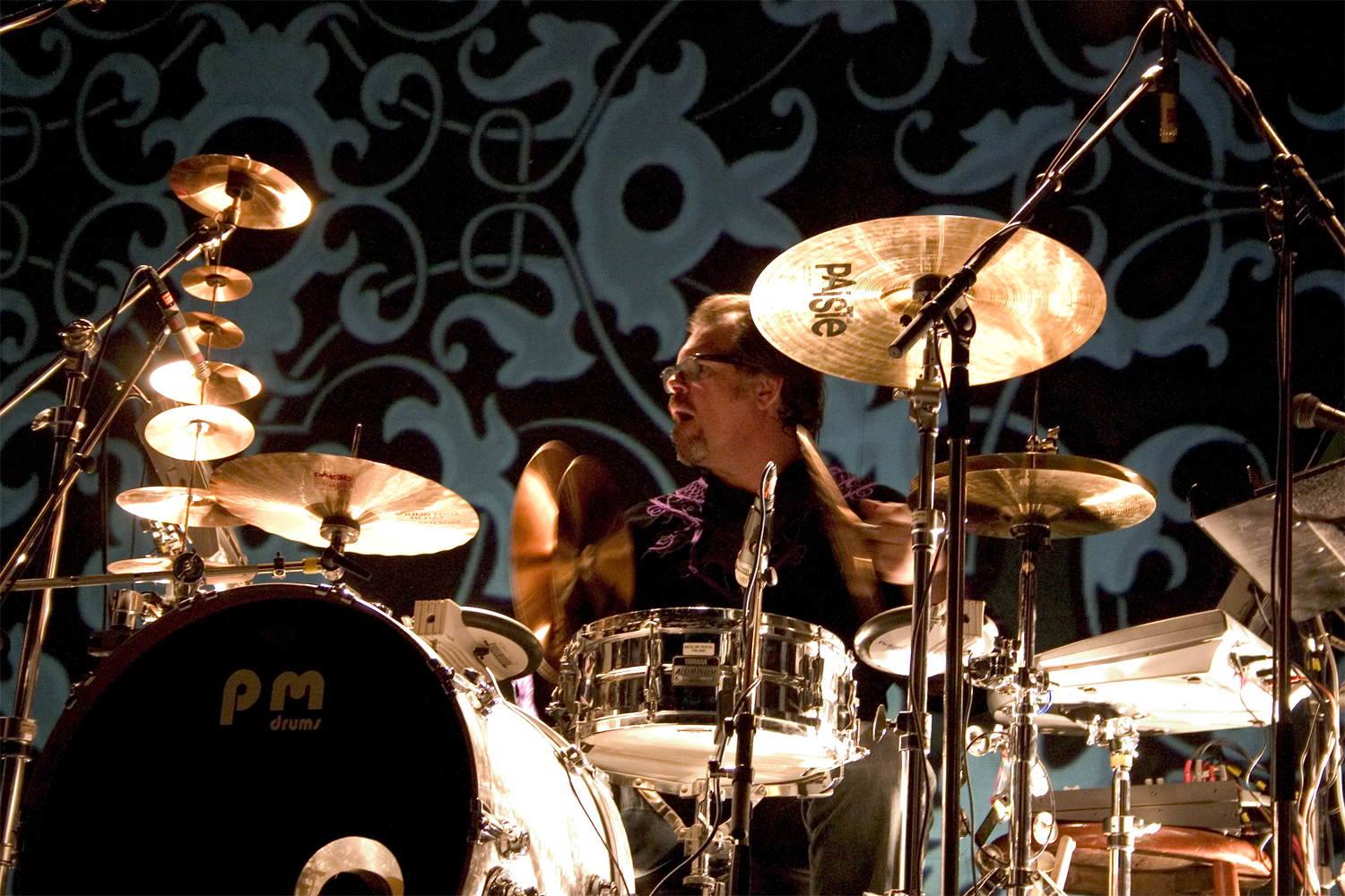 Pat Mastelotto drummer for King Crimson band